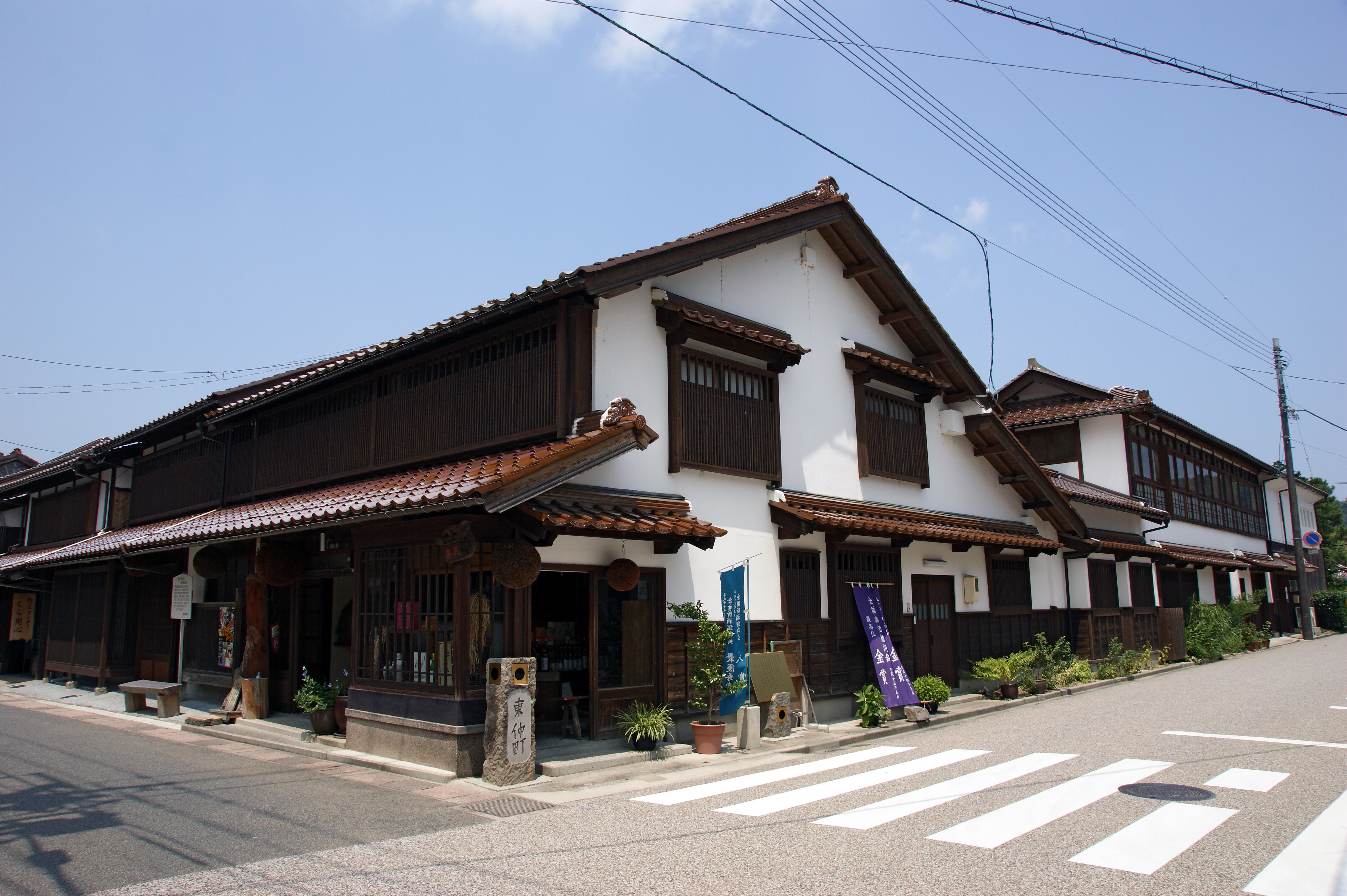 Utsubuki-tamagawa in Kurayoshi, Tottori prefecture, Japan